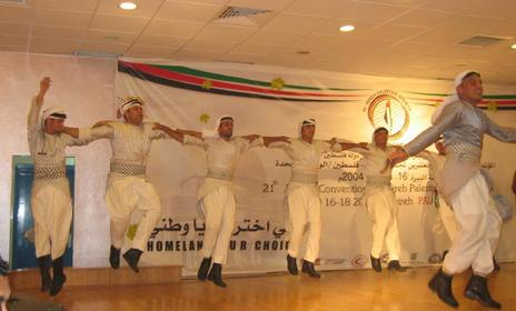 Men dancing debke in the Palestinian city of Al-Bireh. Photo taken by Nazik Hasan.